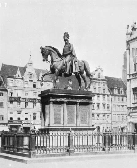 Statue of Frederick William III of Prussia